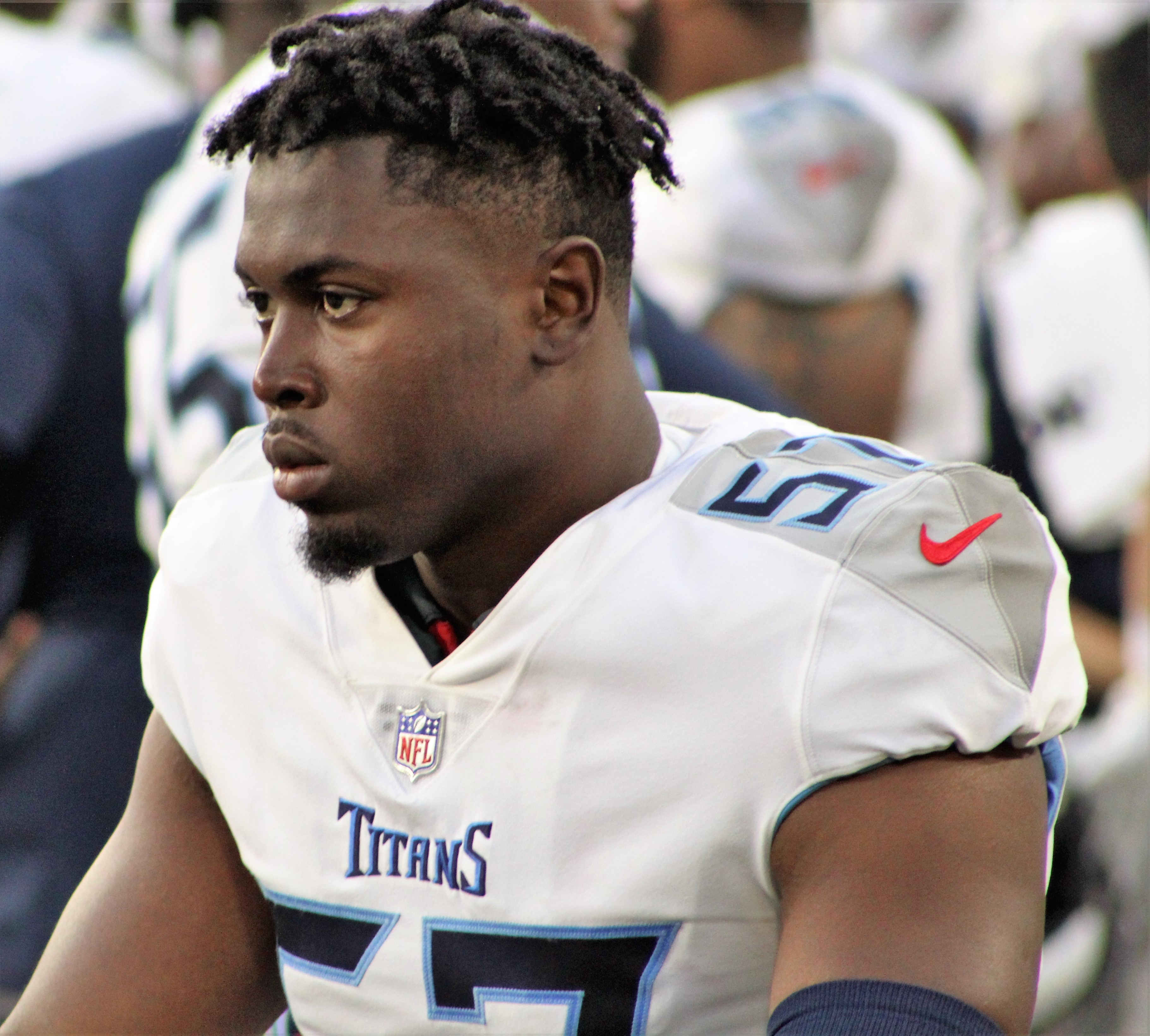 Gimel President, Tennessee Titans at Green Bay Packers (Preseason), August 9, 2018